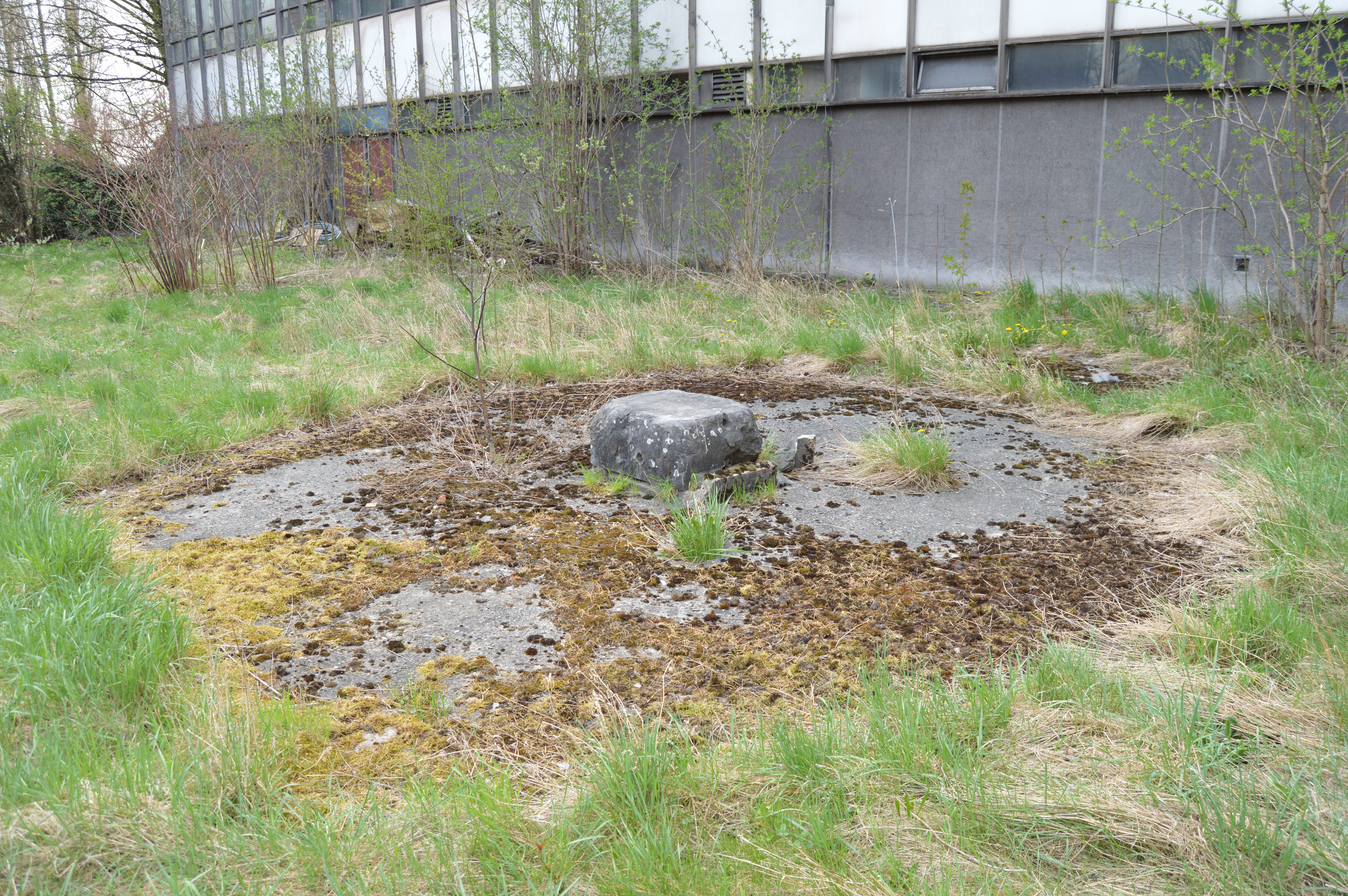 Ancient pit of the Bois d'Avroy coal mine, in Liège, Belgium